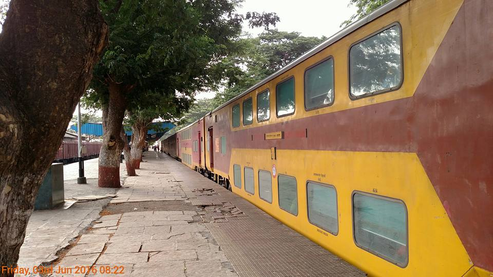 Double Decker Express at Roha station on Central Railway